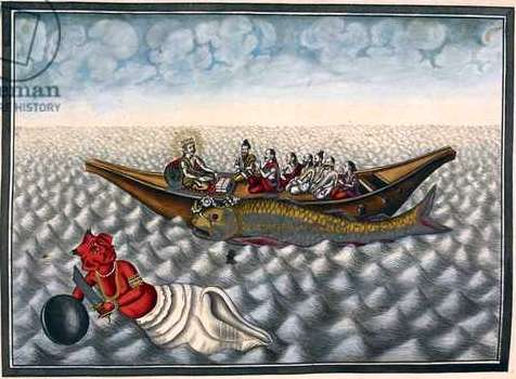 3303866 Fish incarnation, Matsya avatara, first incarnation of Vishnu. Inscribed: \'Incarnation of the Fish\'.; British Library, London, UK; ( .: 61 paintings illustrating the Adhyatma Ramayana, vol. 1. [Boddam collection.] Illustrator: Anon 1803 - 1804 Source/Shelfmark: MSS Eur C116/1 f.8); © British Library Board. All Rights Reserved; out of copyright. PLEASE NOTE: Bridgeman Images works with the owner of this image to clear permission. If you wish to reproduce this image, please inform us so we can clear permission for you.